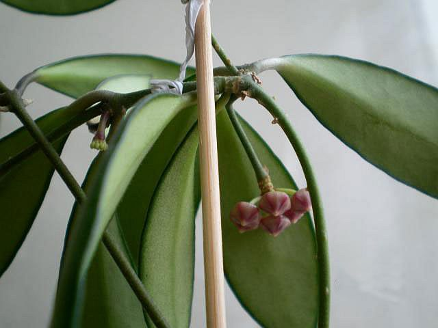 Hoya Davidcummingii